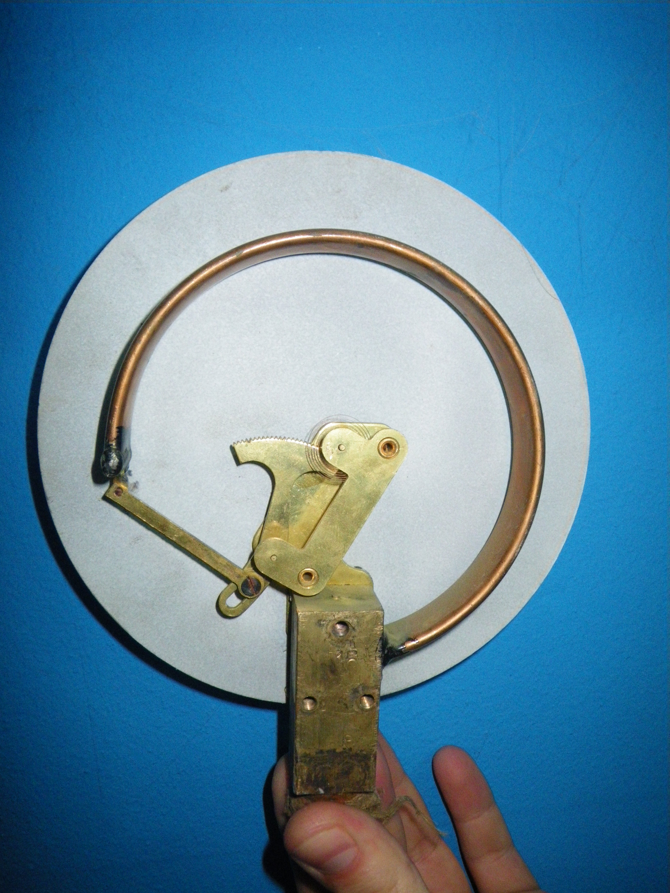 Romanian made Manometer with bourdon tube